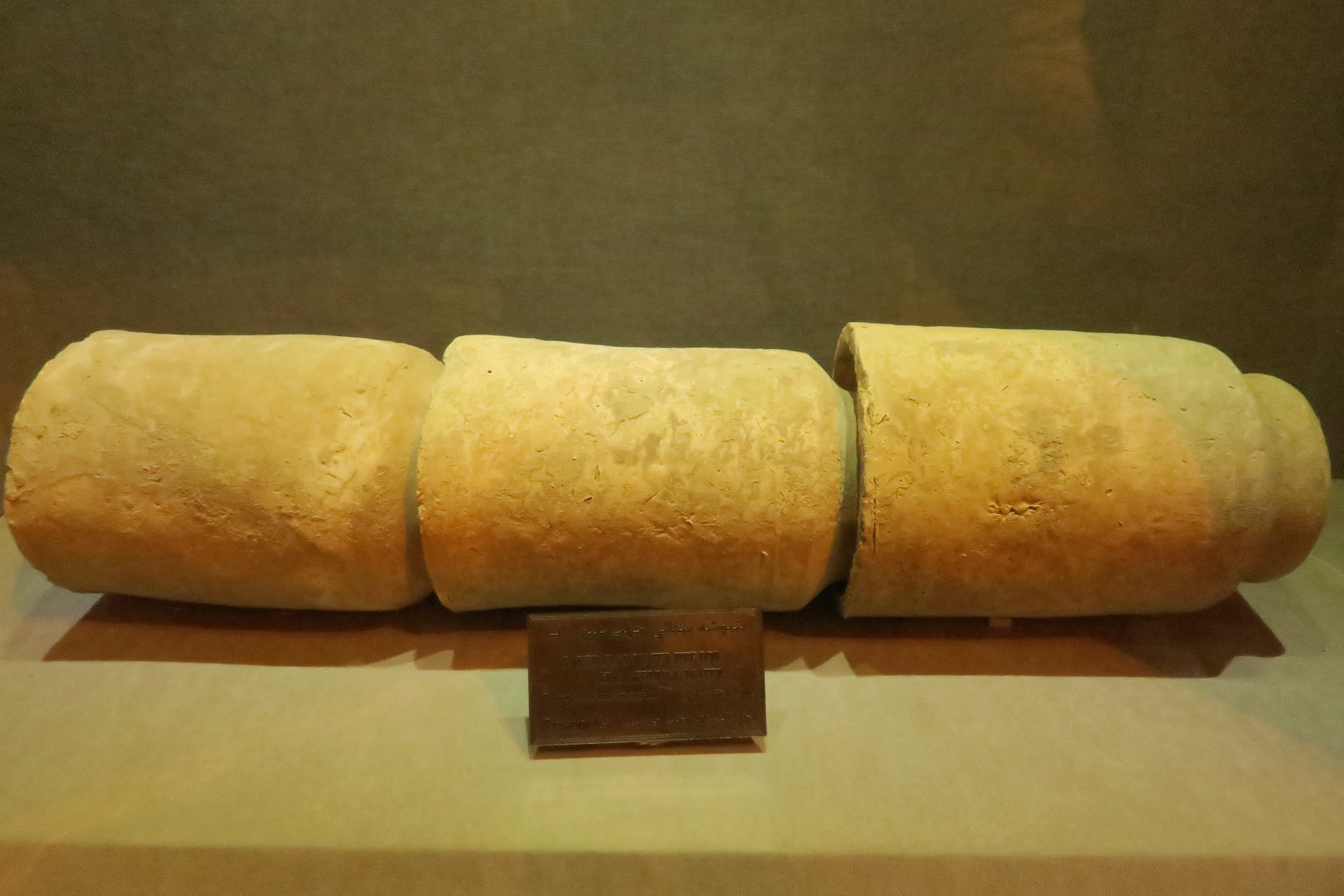 Clay water pipe used in Persepolis